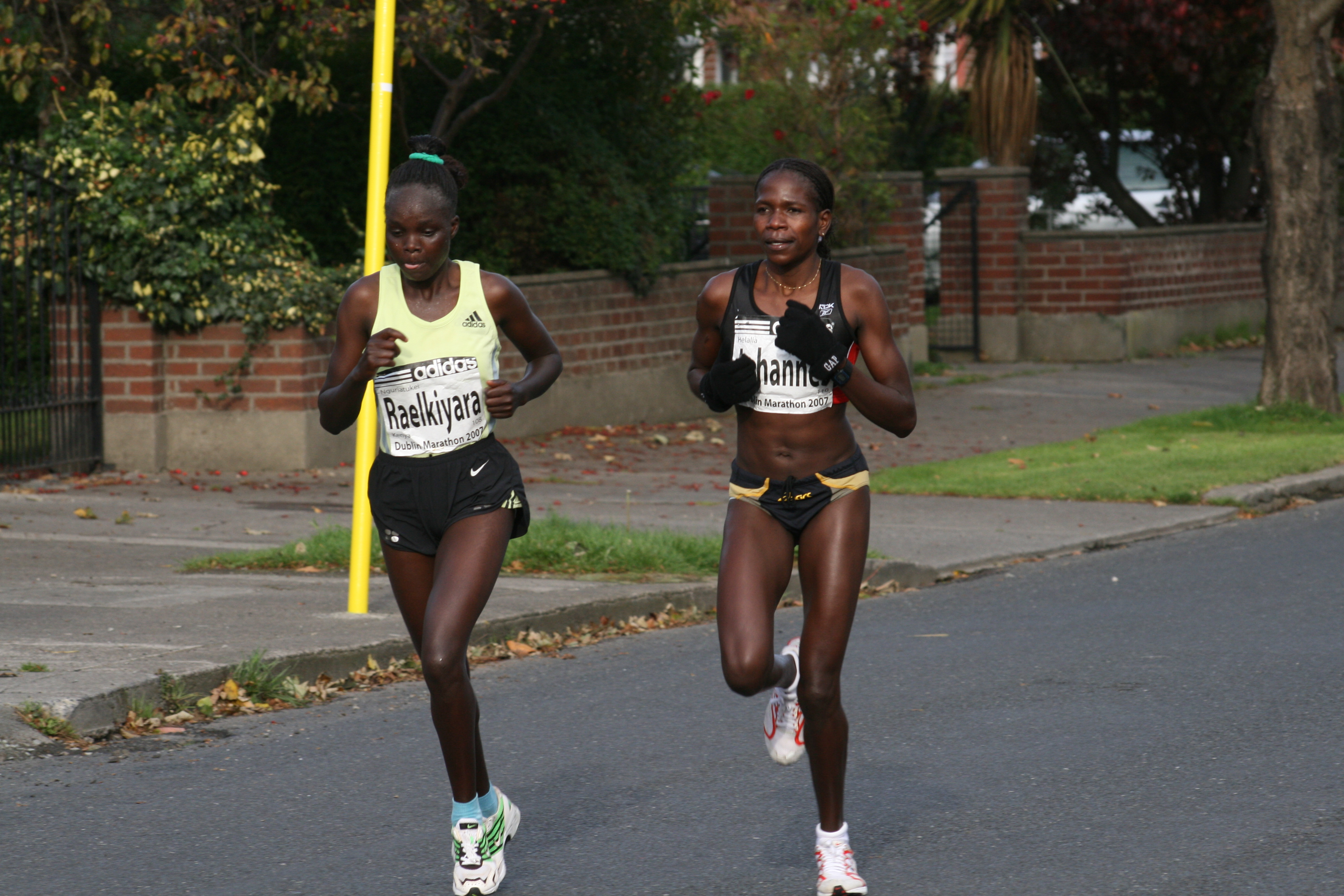 Nguriatukei Rael Kiyara and Helalia Johannes at the 15 mile mark (Fortfield Road) in the Dublin Marathon 2007.